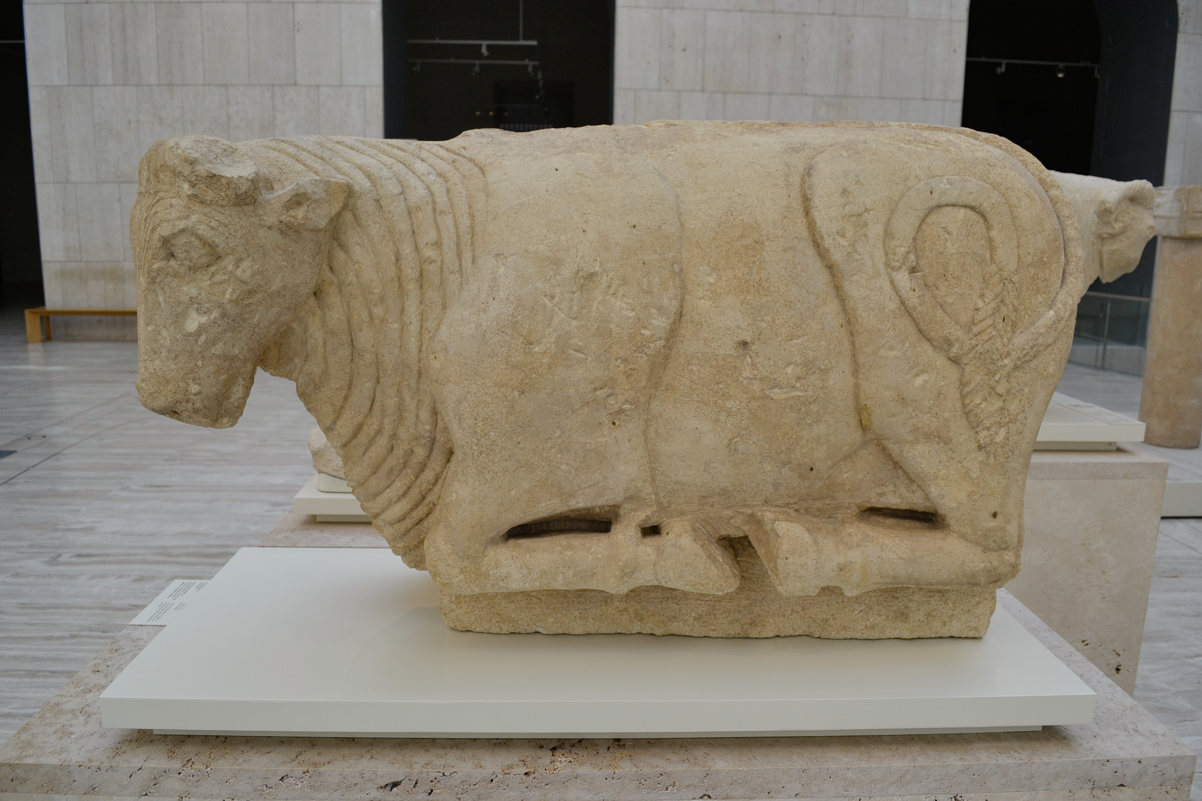 Iberian sculpture. It's an ashlar with a high-relief of a lain-down bull. It was part of a funerary monument, and it supposedly had a symbolic protecting function. It's part of the Sculptures of Osuna.